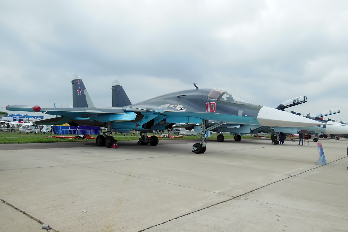 Russian Air Force, RF-95812, Sukhoi Su-34